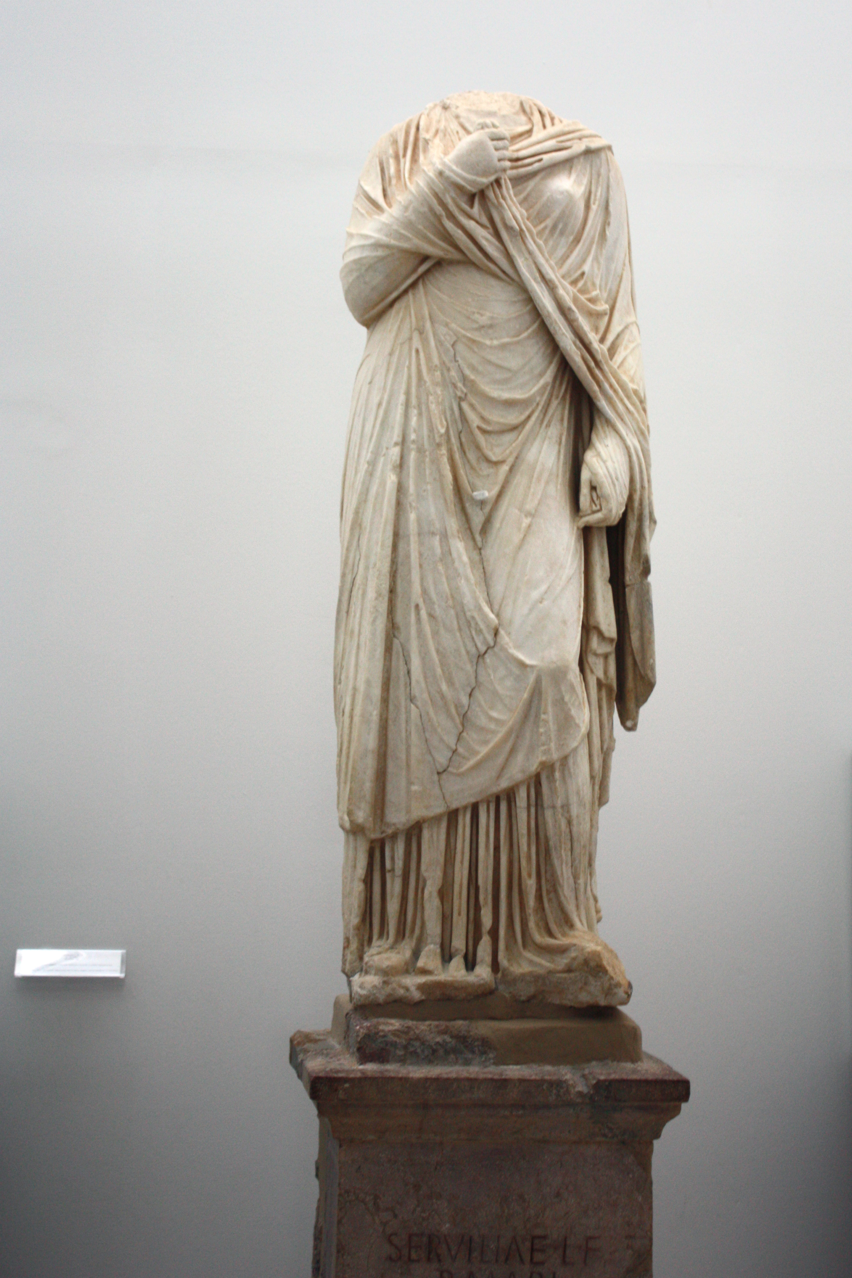 Description = SERVILIAE L.(luci) F.(filiae) P.(pubil) Mari (sc.uxoris) MATER D.(dedicauit) Funerary statue whose pedestal bears the dedication: A Serviliae, daughter of Lucio, wife of Publio Mario, from his mother.